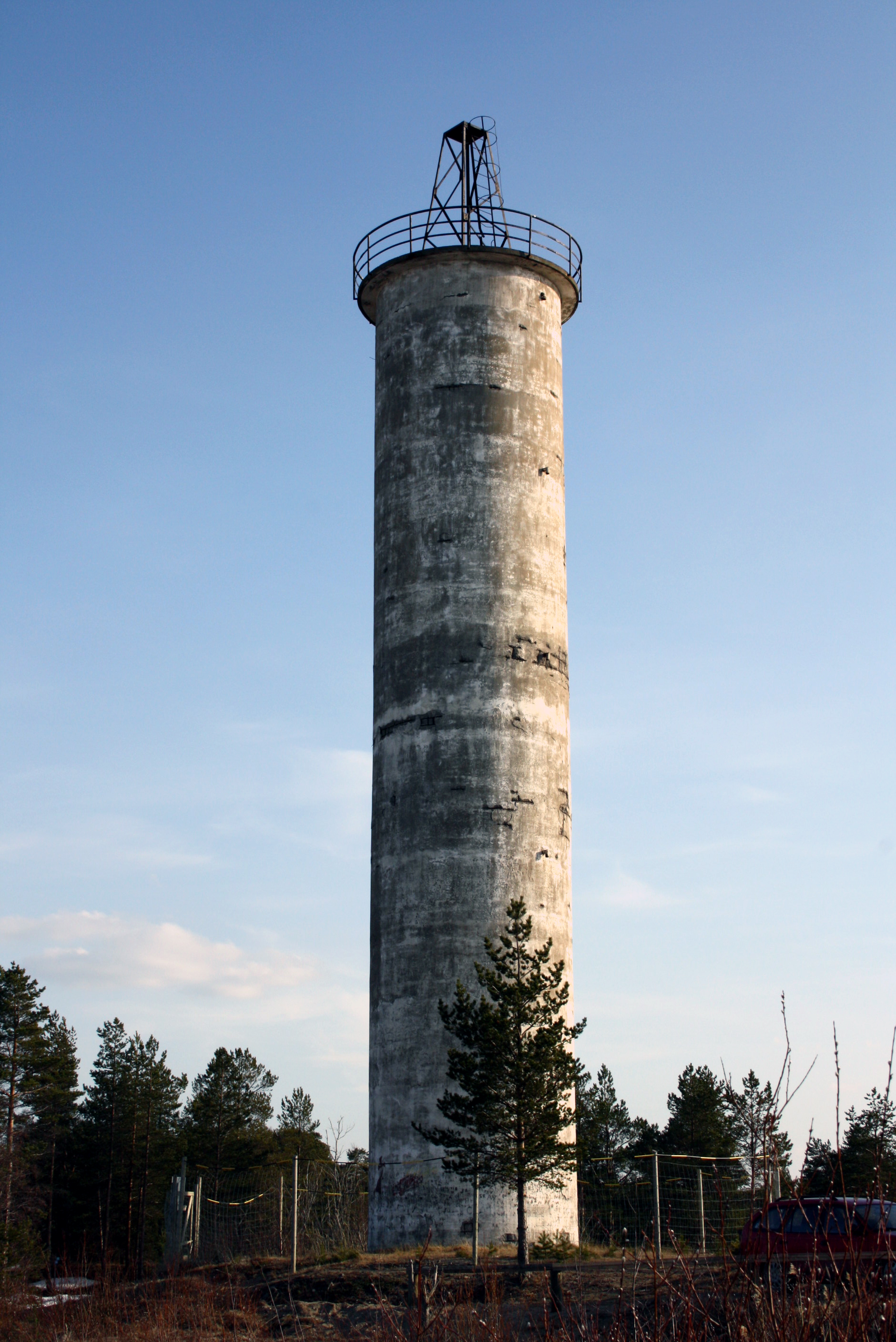 Harrbådan Light in Kokkola, Finland